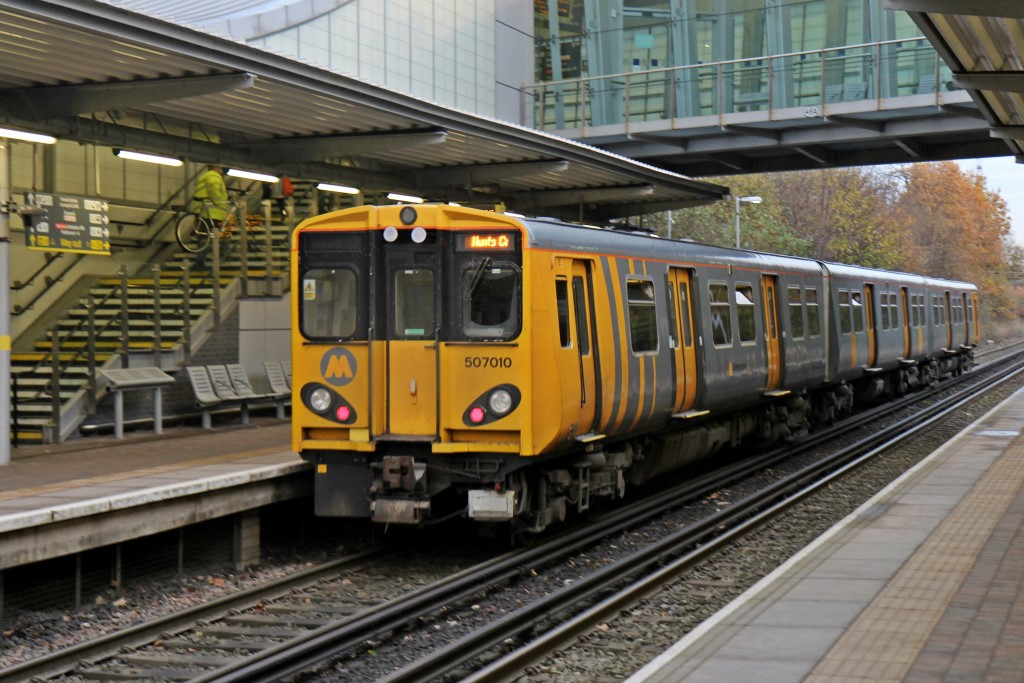 Merseyrail Class 507, 507010, Liverpool South Parkway railway station